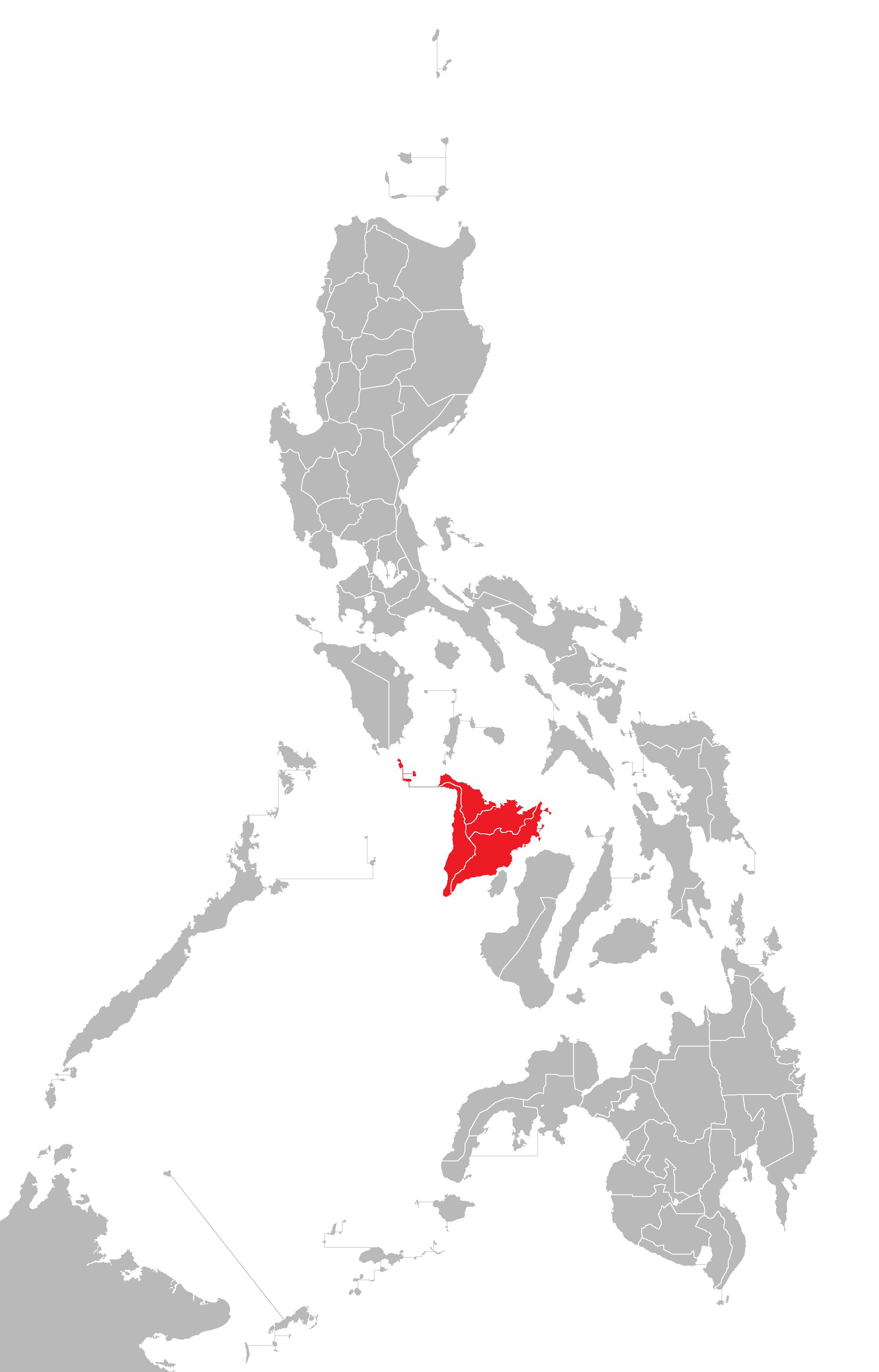 Derived from File:BlankMap-Philippines.png Map of Panay Island In red